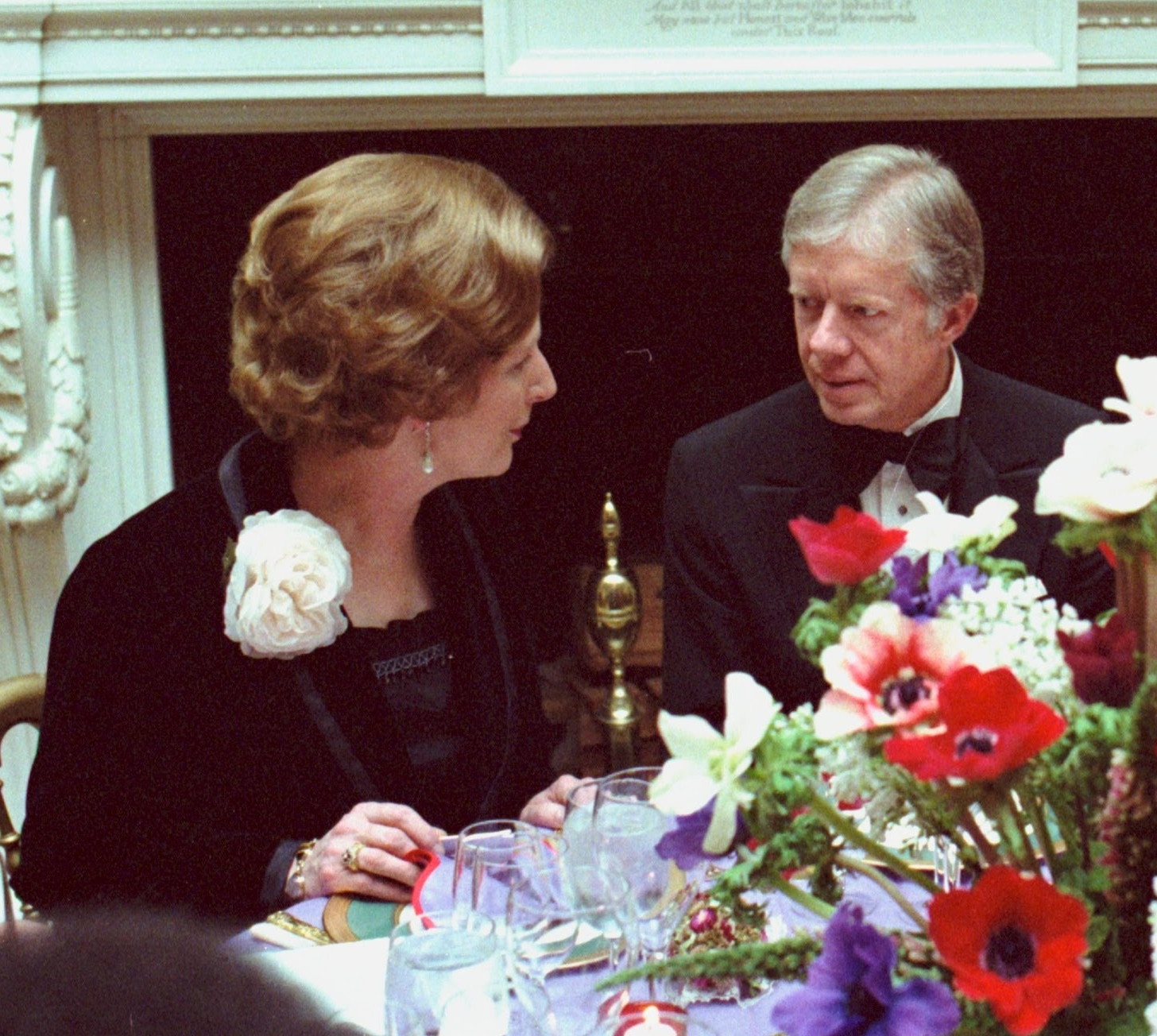 Margaret Thatcher with President Jimmy Carter during a state dinner at the White House.